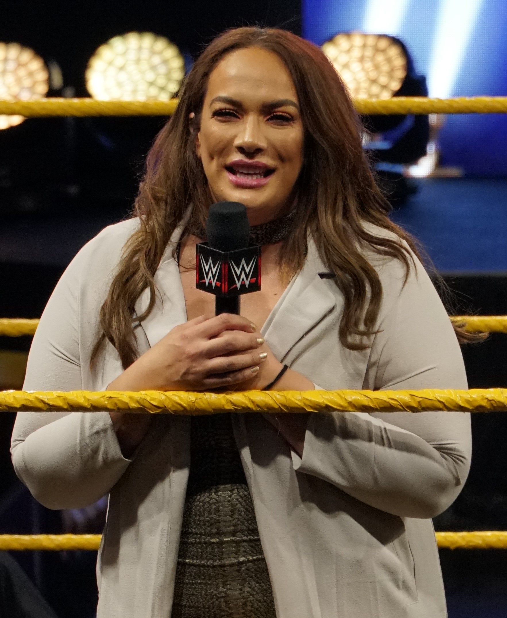 Nia Jax in the ring at WWE Axxess in April 2018.